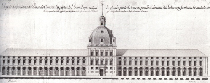 Projeto nao realizada